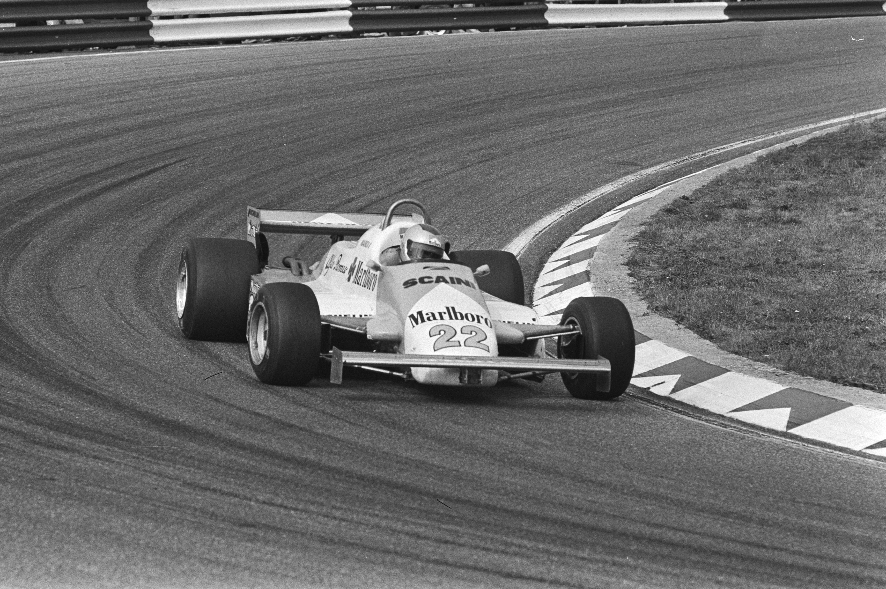 Mario Andretti driving the Alfa Romeo 179D Formula 1 car at the Dutch Grand Prix in 1981